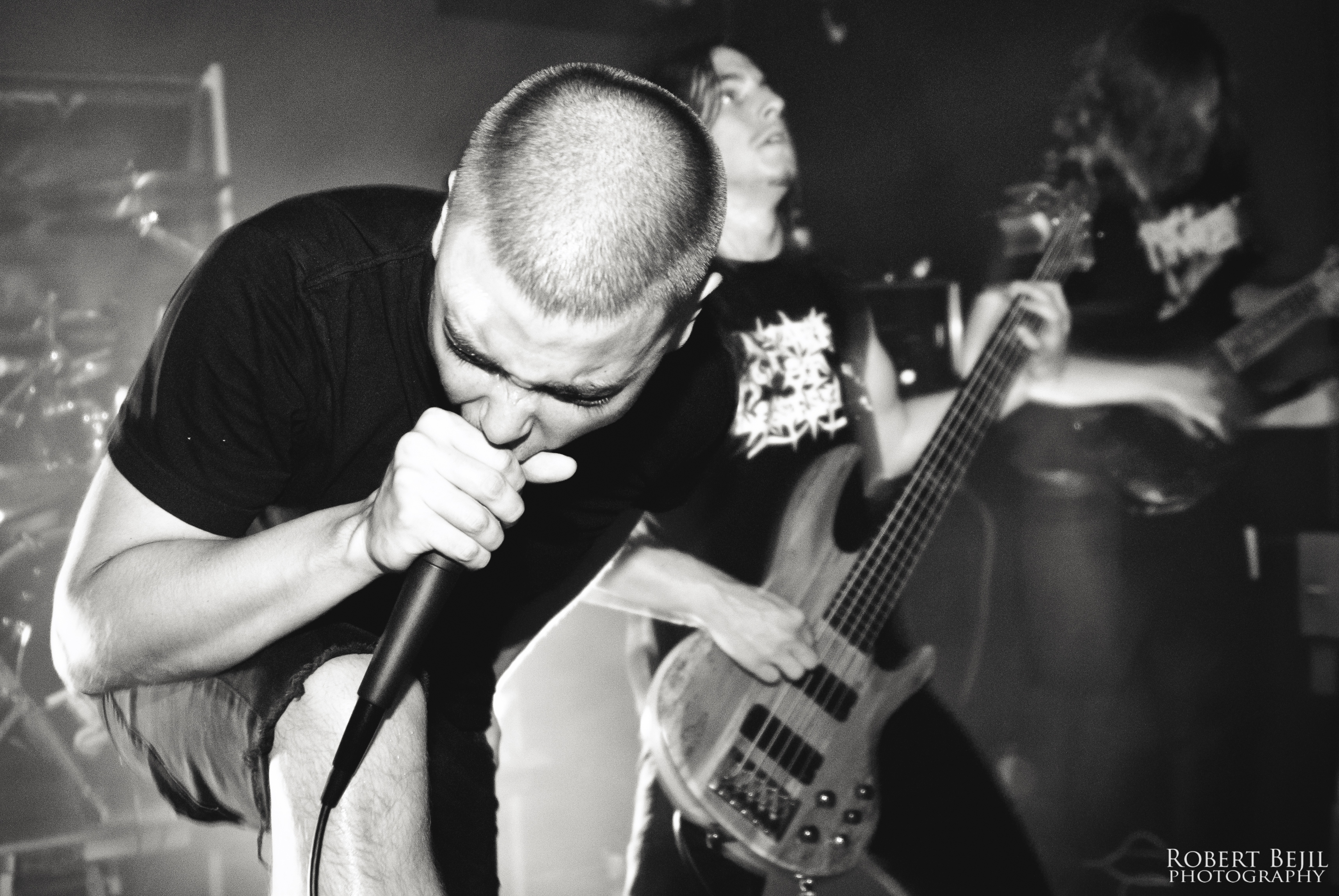 Live @ The Dome. Bakersfield, CA 07-18-11